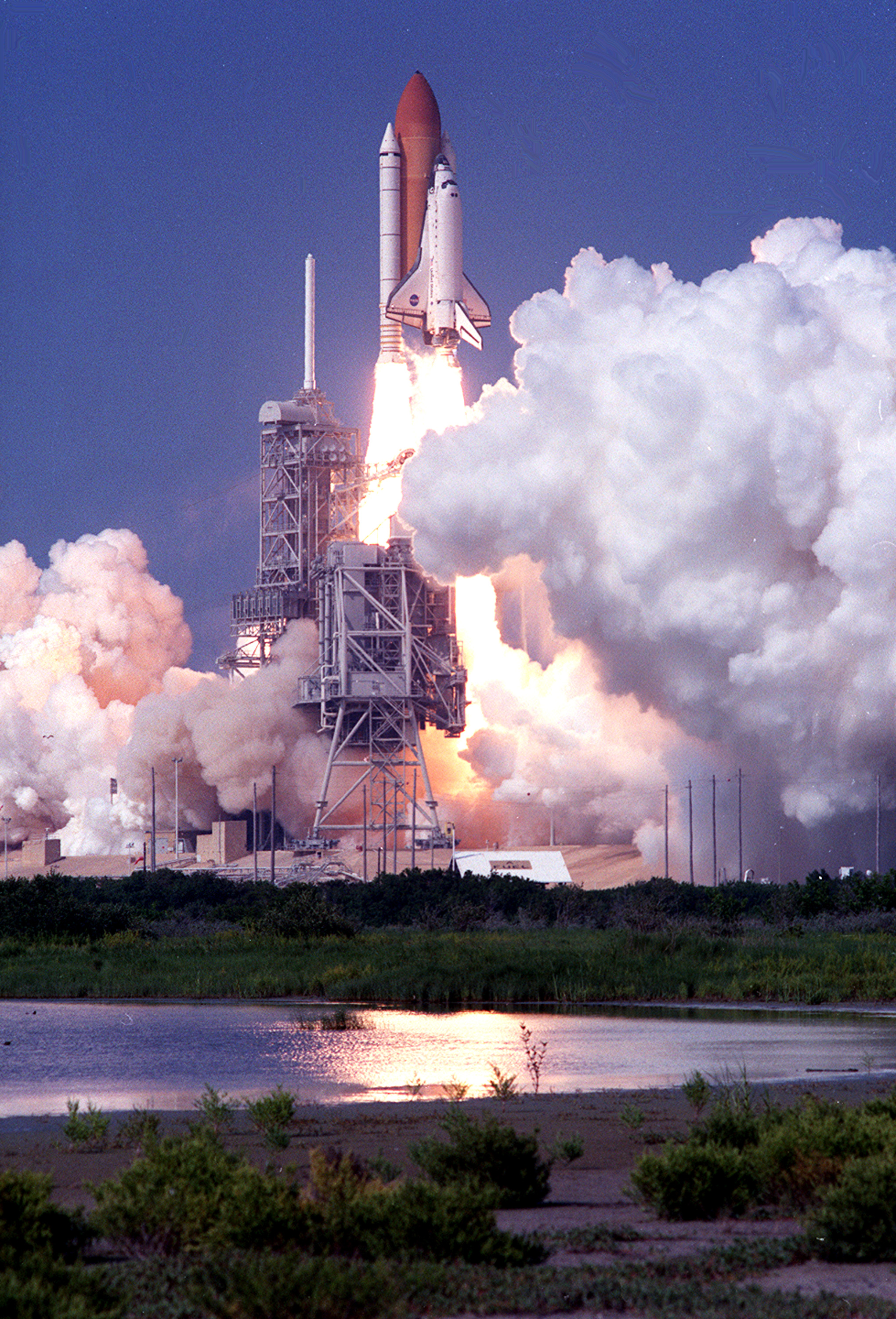 Perfect launch for Space Shuttle Discovery on mission STS-105.